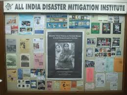 All India Disaster Mittigation's photo, from its Ahmedabad office.